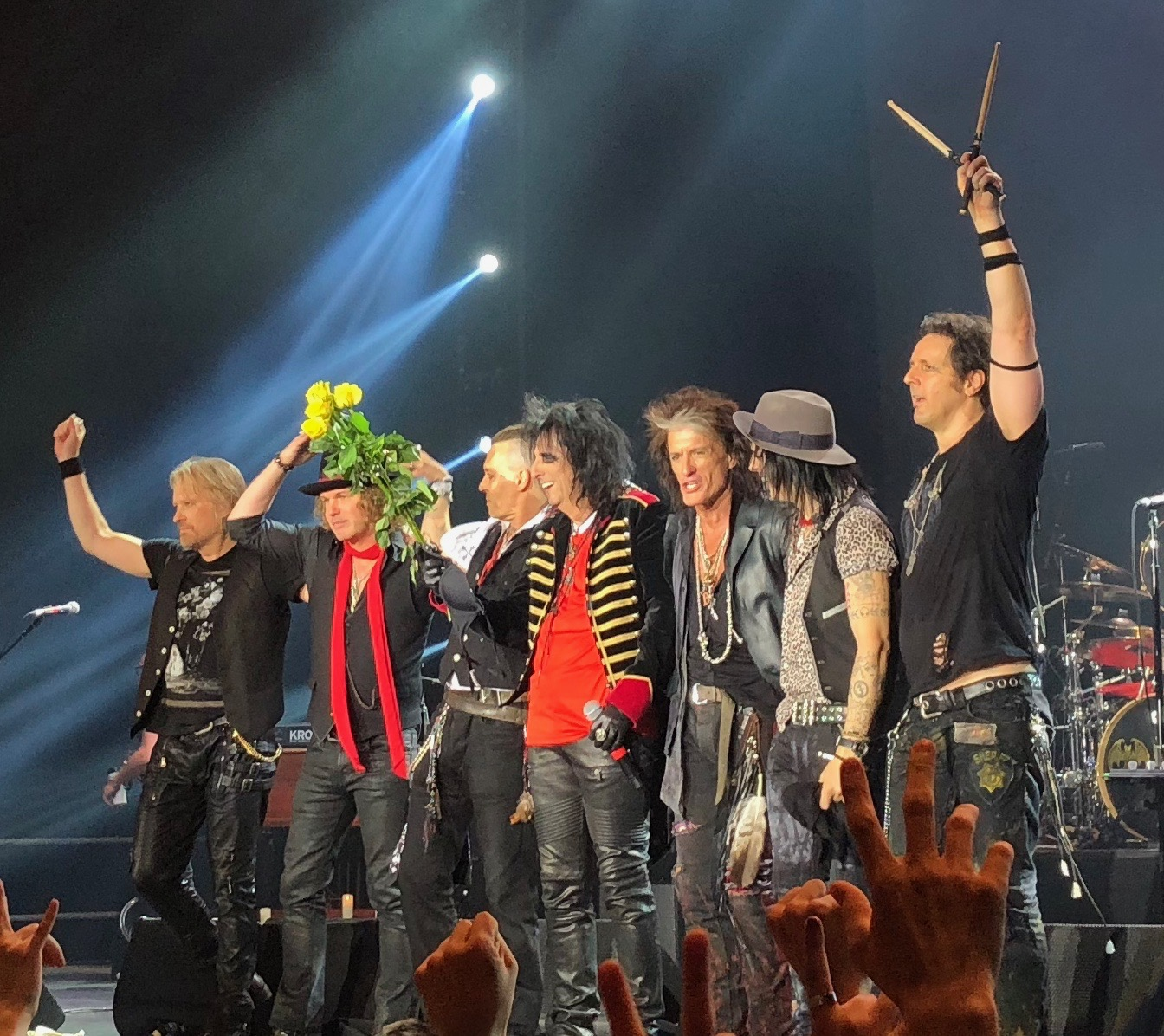 Hollywood Vampires (band) performing at Moscow Olympic Stadium on 28 May, 2018.